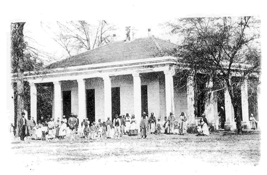 Source: African Americans Around the Country URL